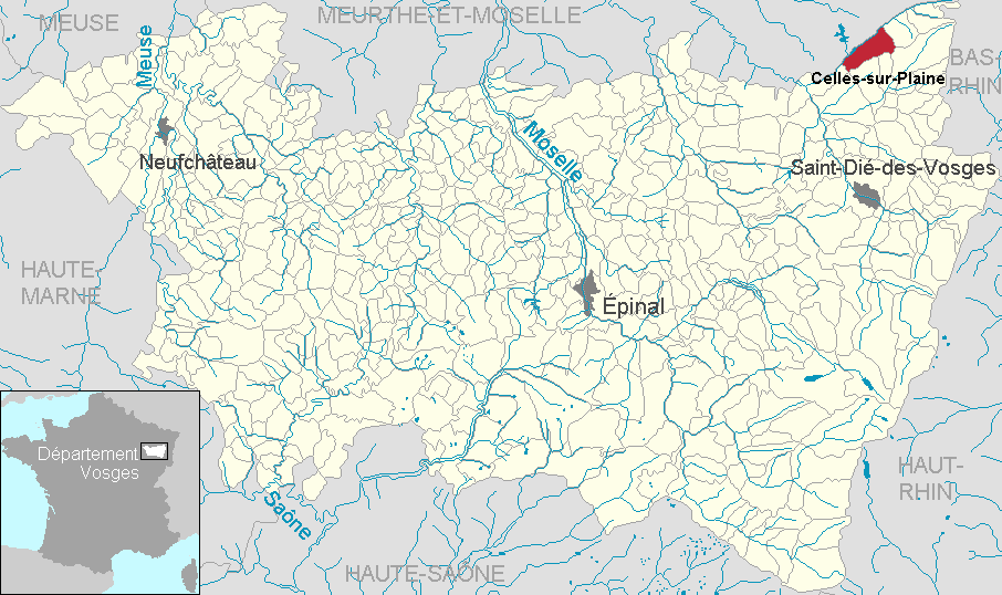 Celles-sur-Plaine in the department of Vosges, Lorraine, France